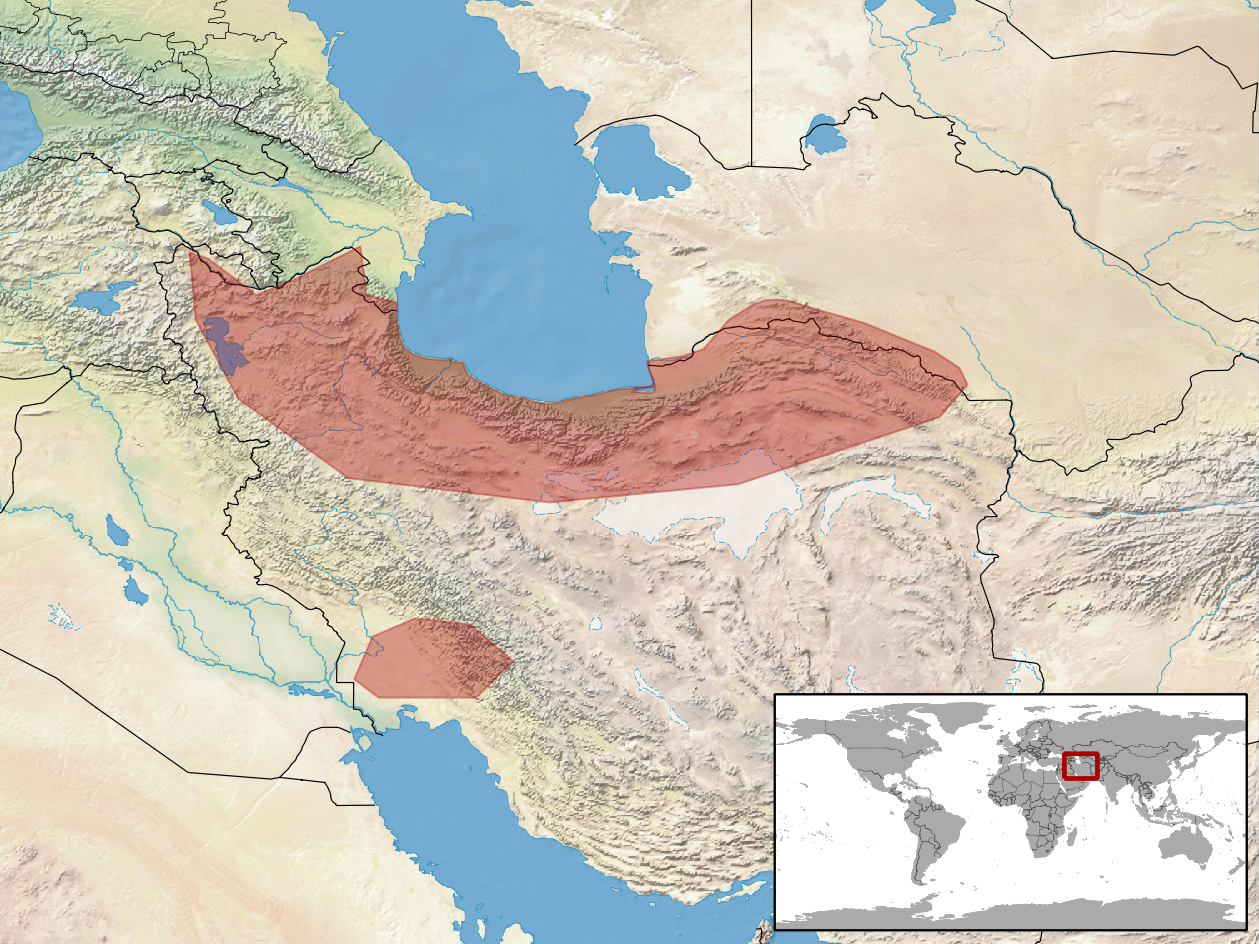 geographic distribution of Eirenis medus (Native: Iran, Islamic Republic of; Turkmenistan)